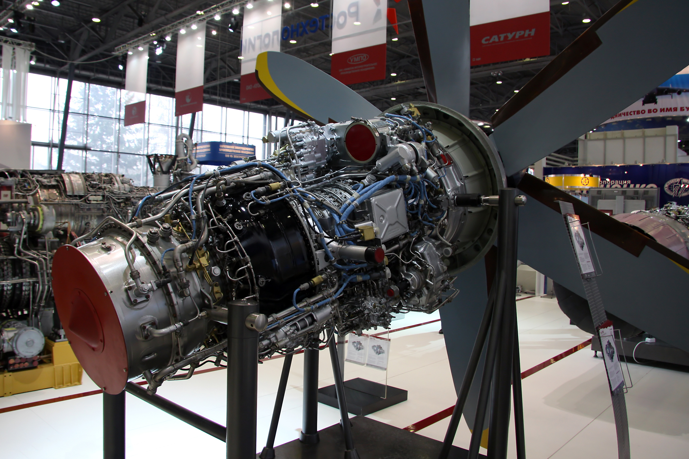 TV7-117SM engine for IL-114-300 and IL-114-300T in International salon Engines-2010